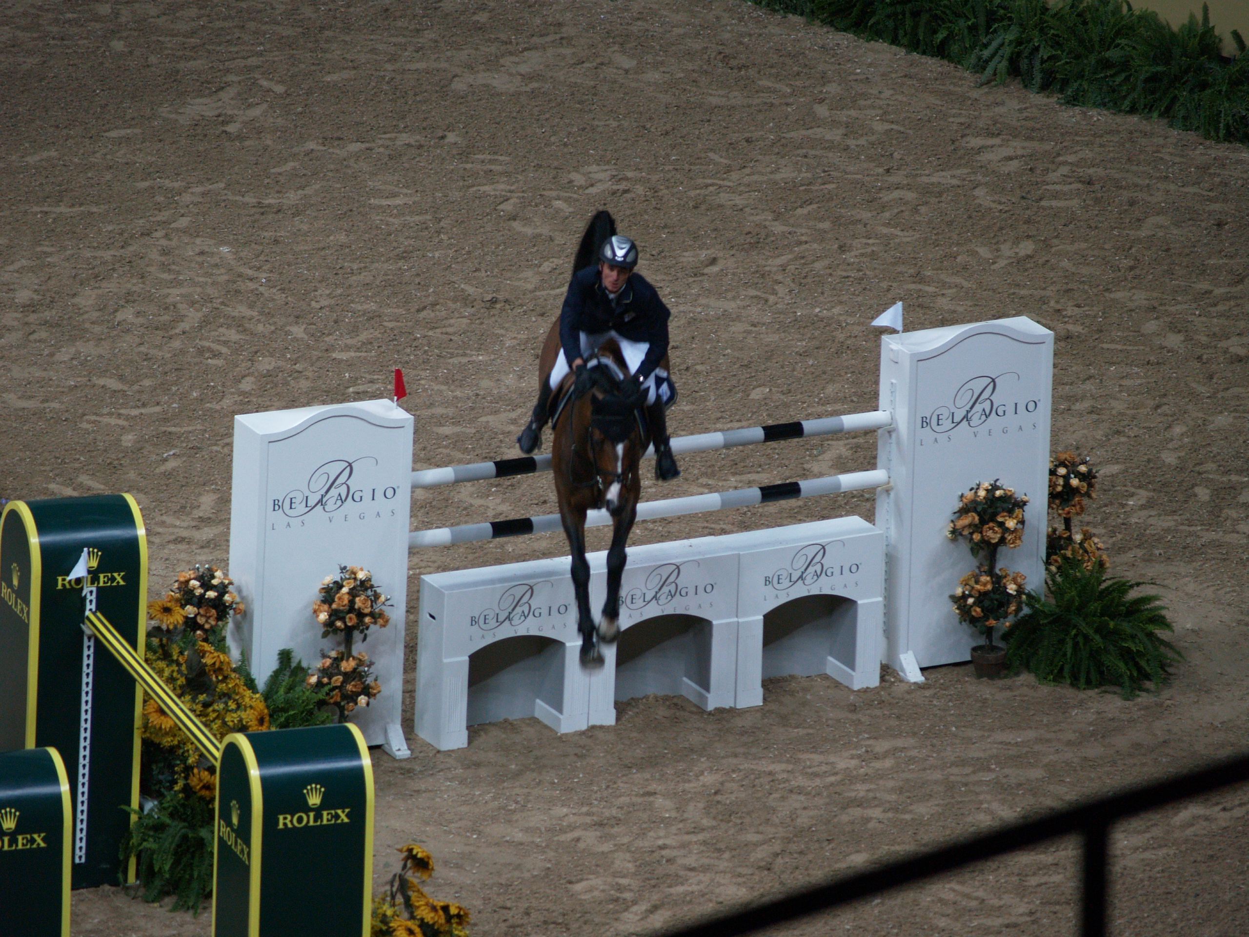 Steve Guerdat (SUI) with Tresor, FEI-World Cup Final 2007, Las Vegas, NV, USA